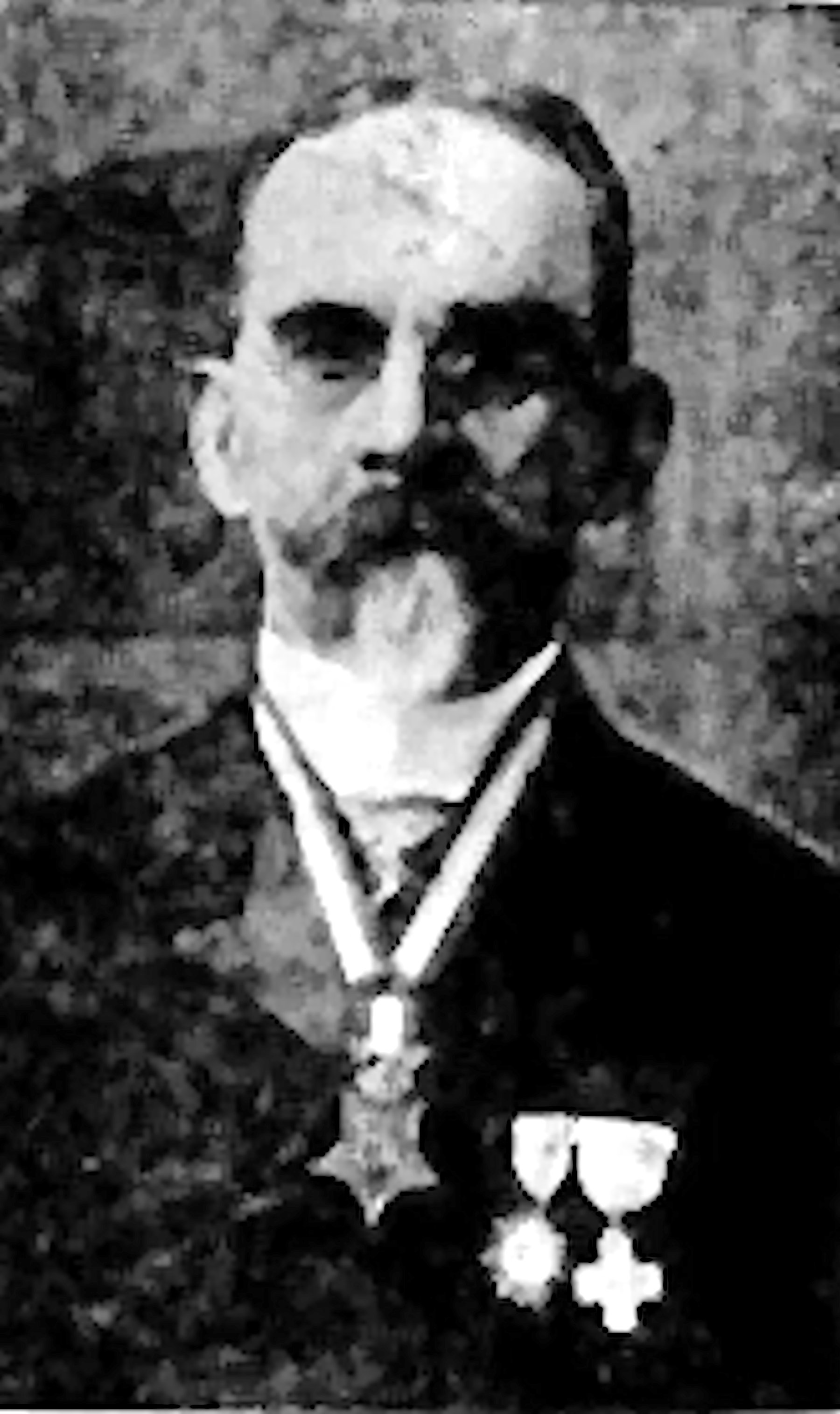 Lowell Mason Maxham MoH winner 1905